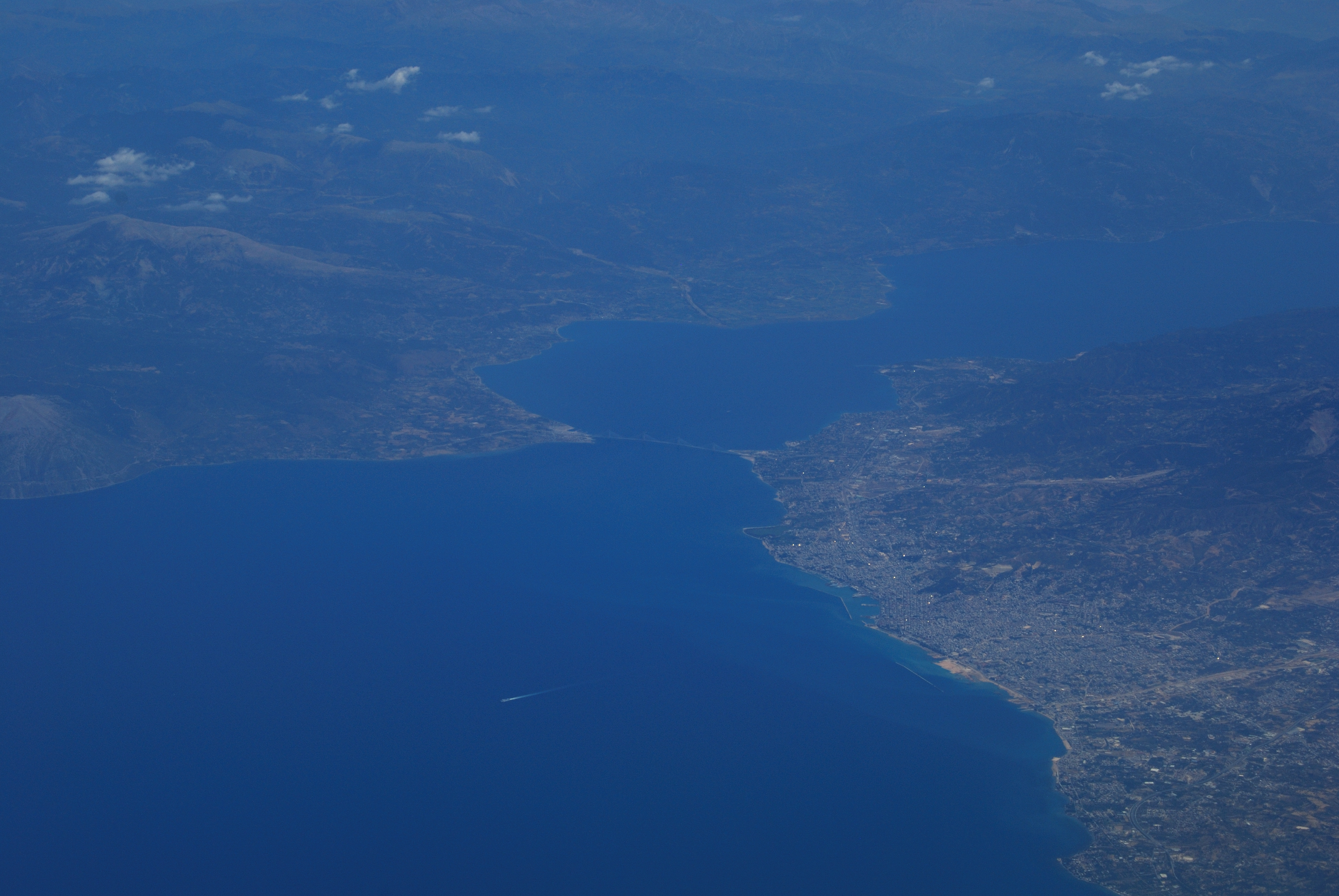 Rio-Antirio-Bridge